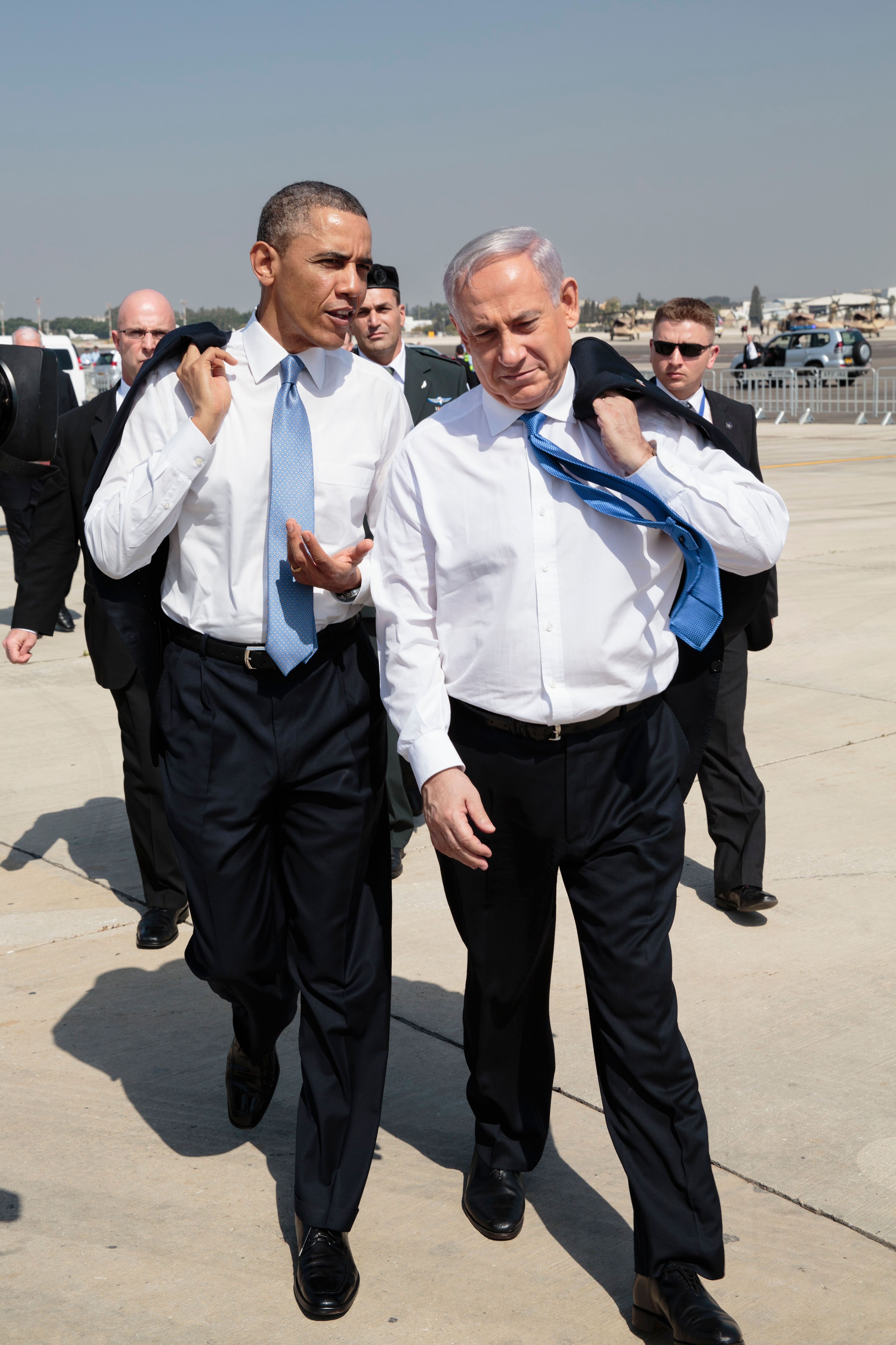 United States President Barack Obama talks with Israeli Prime Minister Benjamin Netanyahu as they walk across the tarmac at Ben Gurion International Airport in Tel Aviv, Israel, on 20 March 2013.